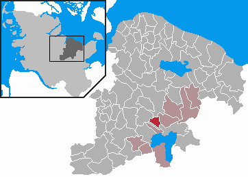 This map shows the area of the Gemeinde (municipality) Wittmoldt in the Kreis (district) Plön, Schleswig-Holstein, Germany.